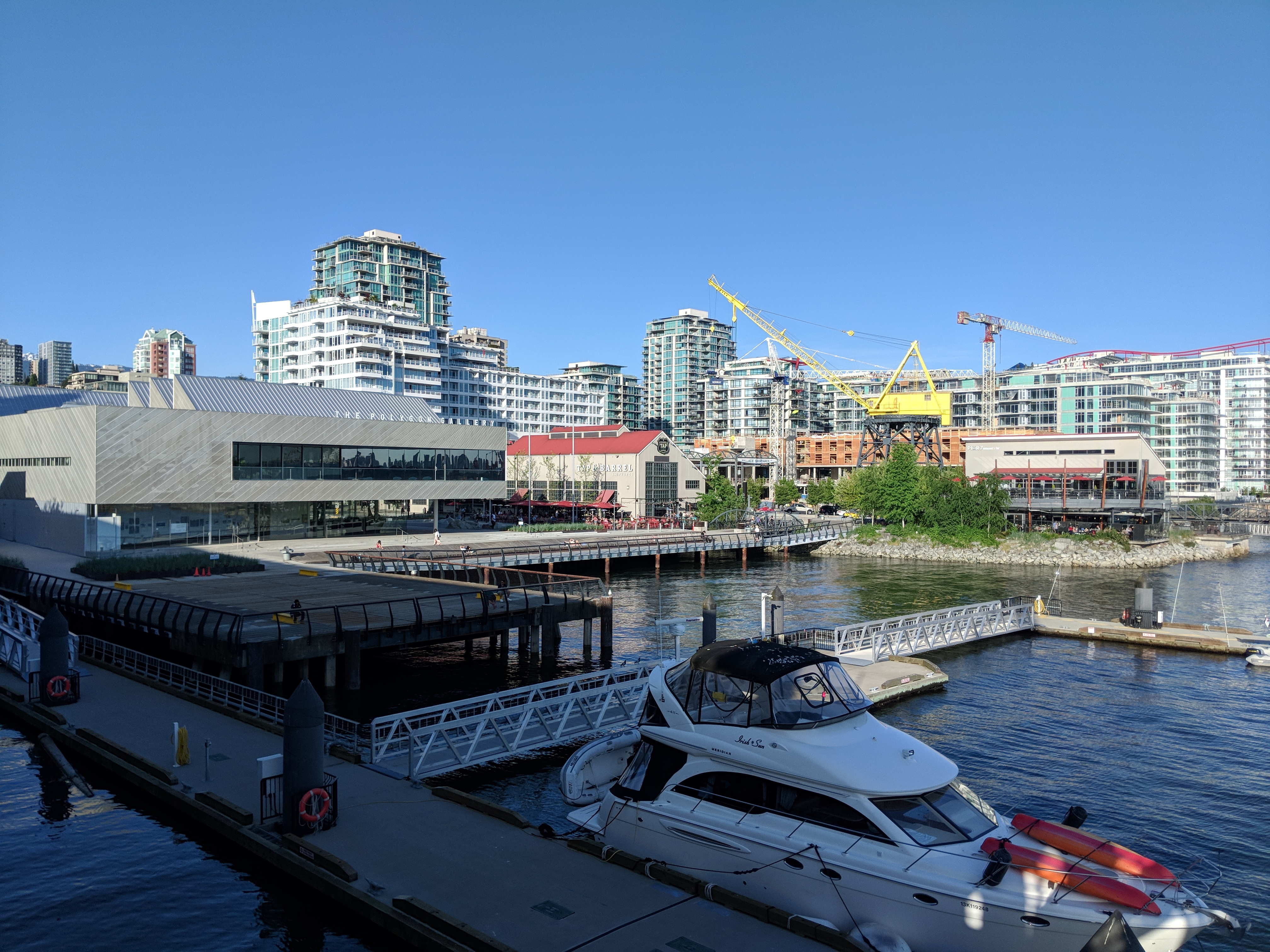 The Shipyards Precinct and Polygon Gallery, viewed from the second storey of Lonsdale Quay. May 2018.